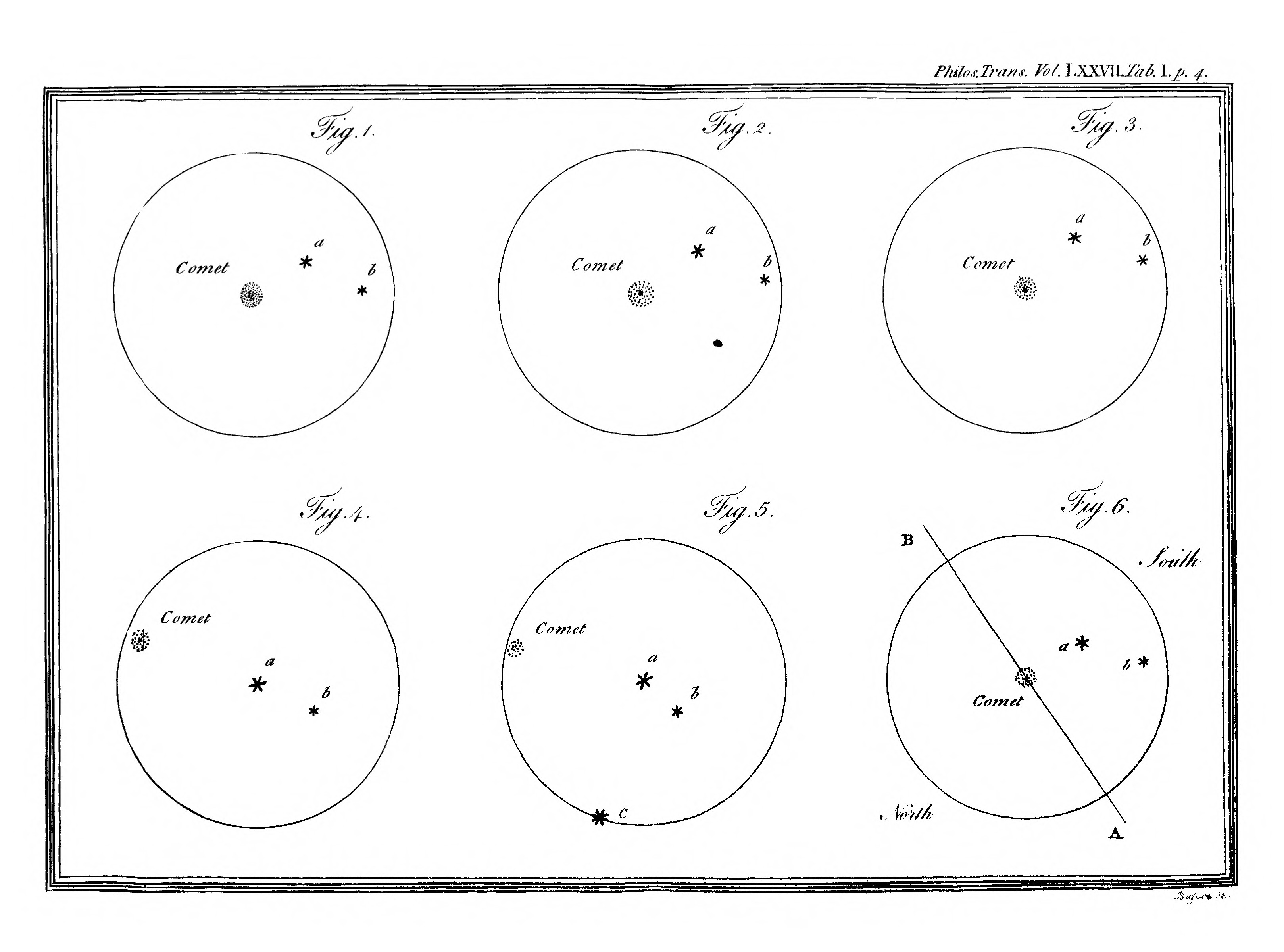 Fold-out tab from Volume 77 of Philosophical Transactions, with six diagrams illustrating the position of comets observed by Caroline Herschel and William Herschel.